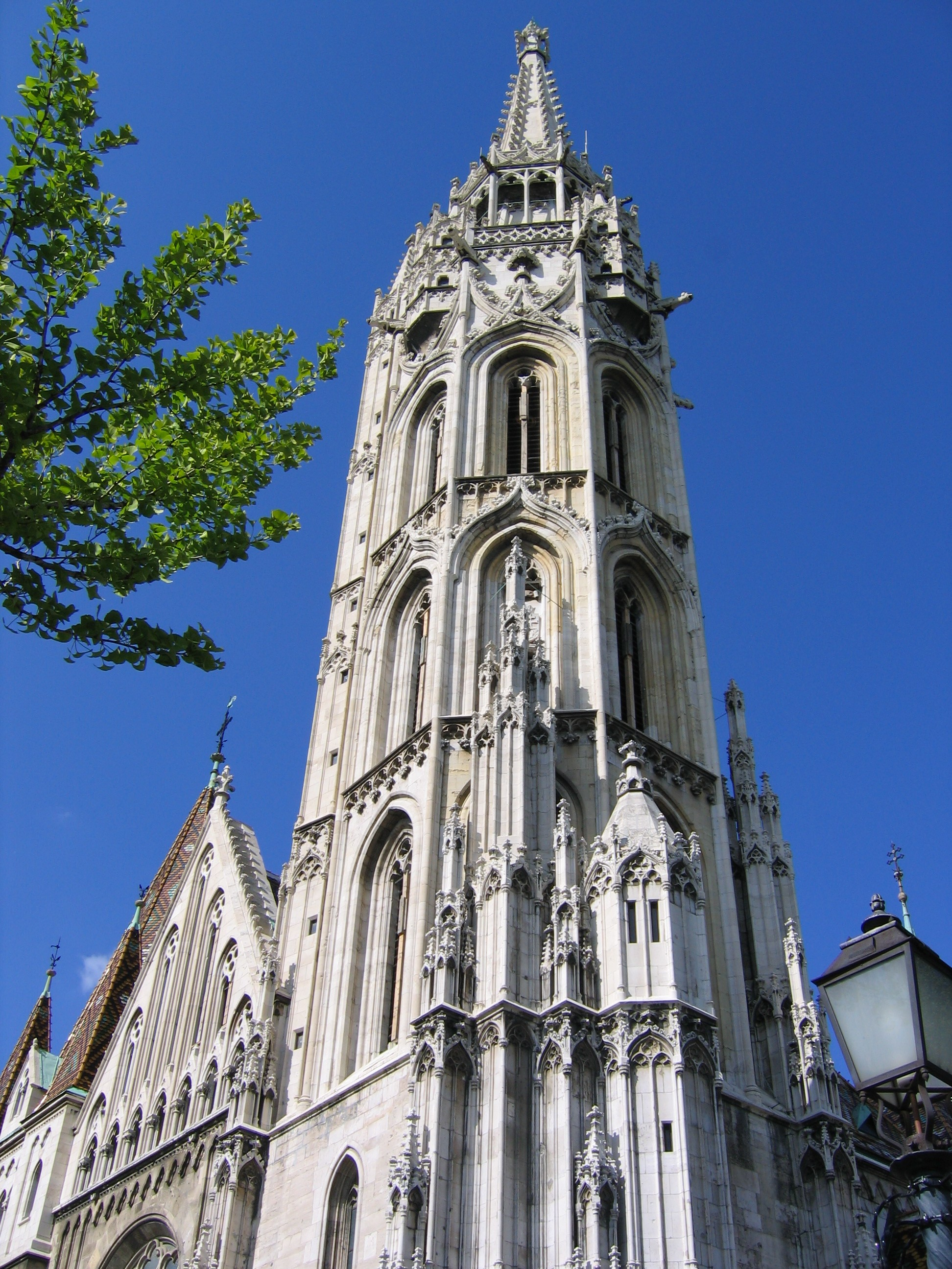 Matthias Church (Mátyás-templom) in Budapest, Hungary.